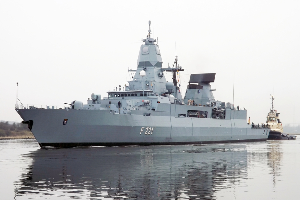 F221 FGS Hessen, a Sachsen-class Frigate of the German Navy